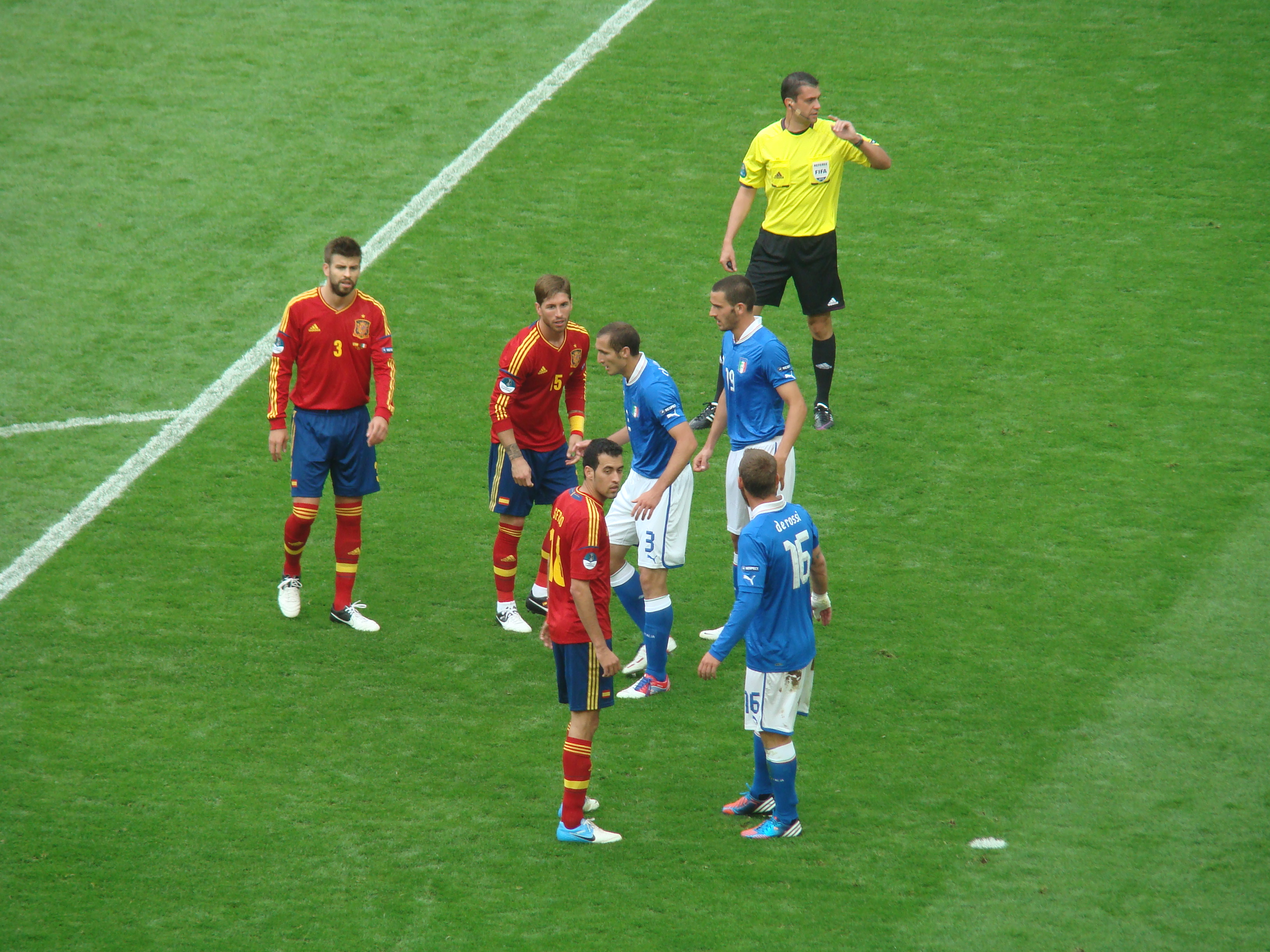 Corner kick for Spain during the game against Italy in Gdańsk during Euro 2012